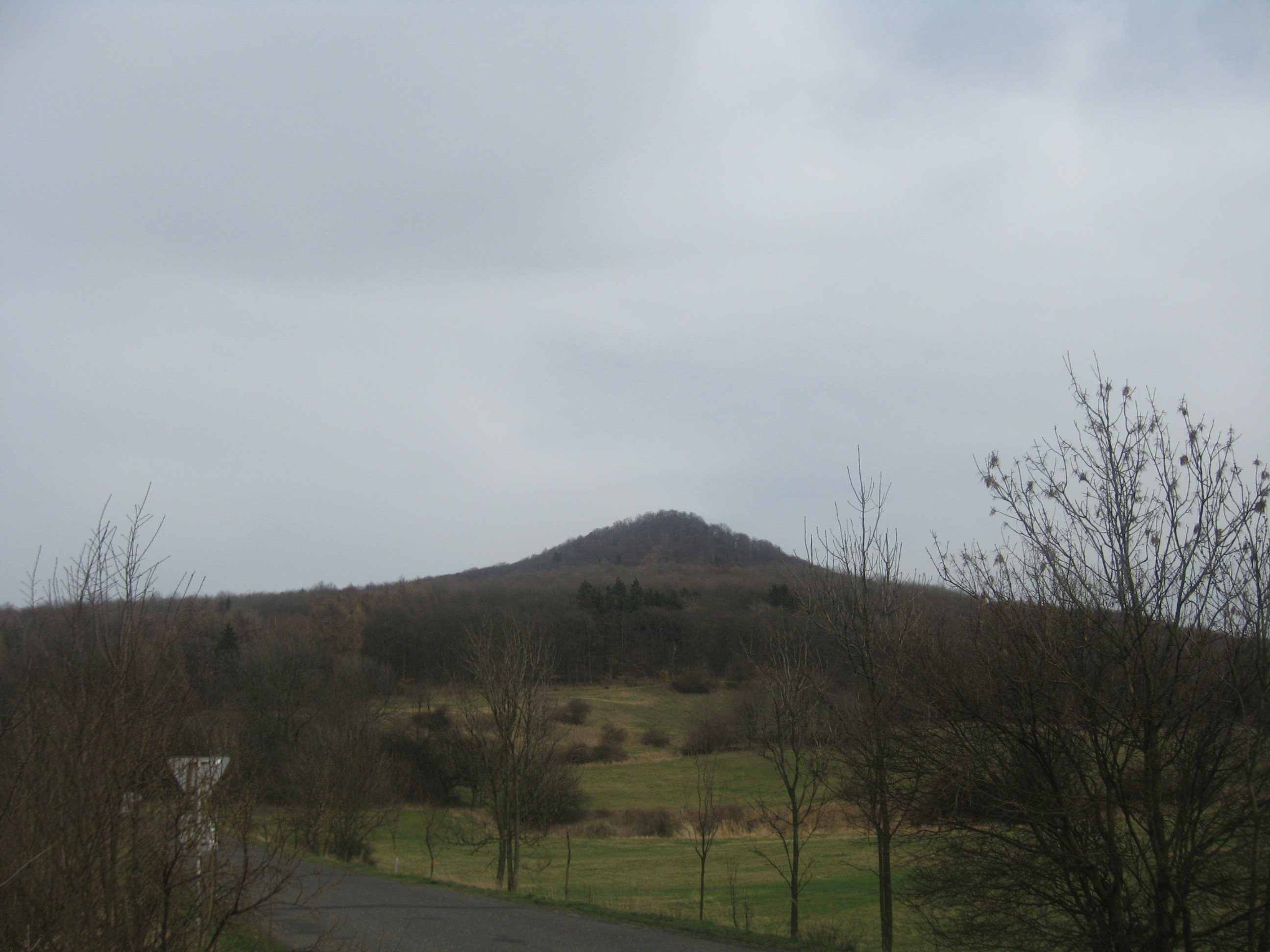 Kletečná hill from Paškapole pass